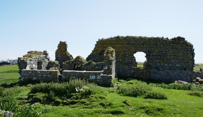 Teampull na Trionaid, North Uist, Outer Hebrides, Scotland - from the north